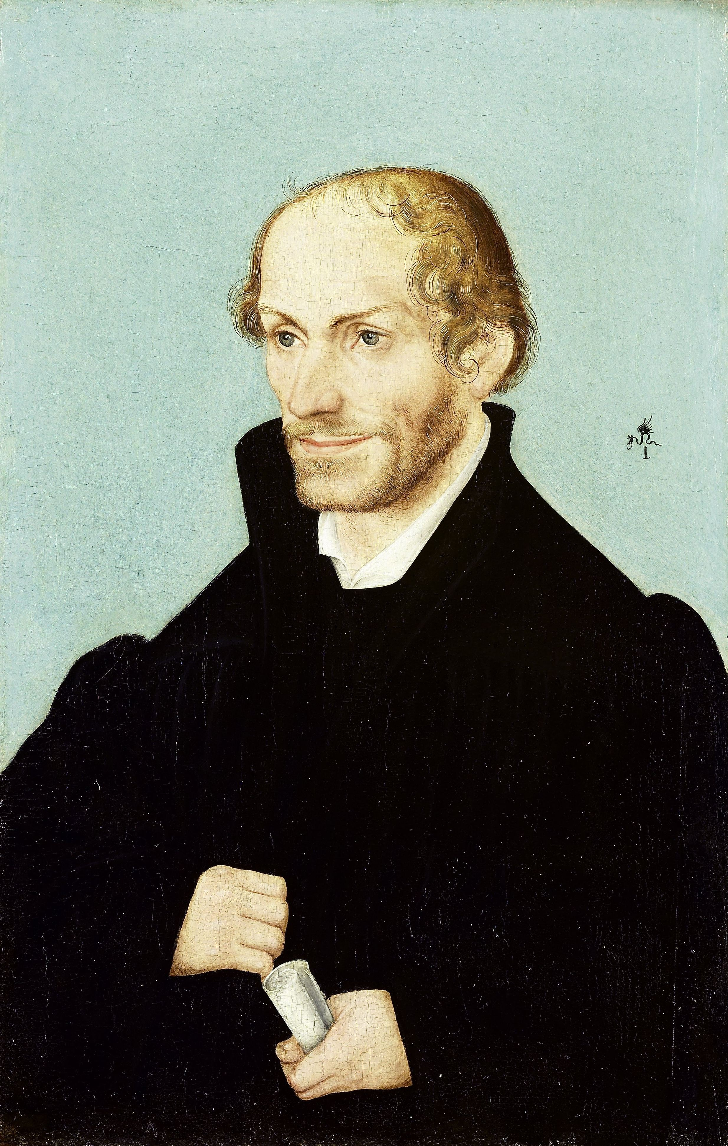 Portrait of the German church reformer Philipp Melanchton (1497-1560), his right hand holding a paper scroll.